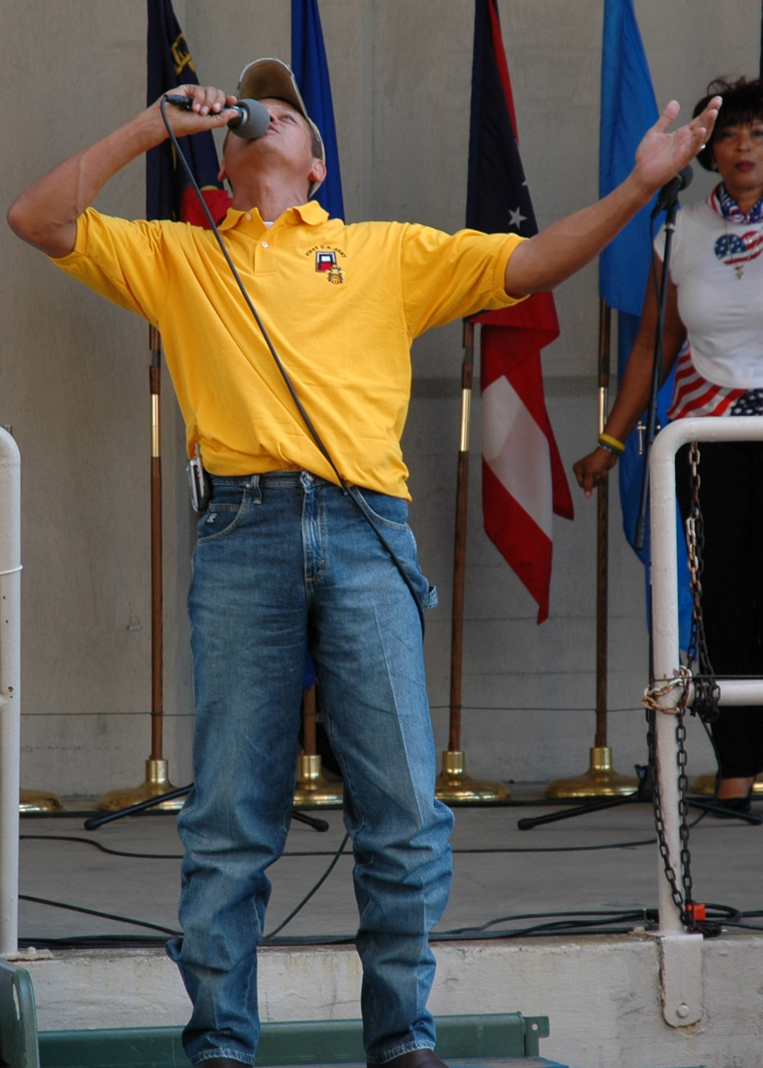 New Orleans (Sept. 21, 2005) - Three-time platinum album country music singer Neal McCoy performs at a USO concert for military personnel supporting Hurricane Katrina relief efforts on board Naval Support Activity New Orleans. The Navy's involvement in the Hurricane Katrina humanitarian assistance operations are led by the Federal Emergency Management Agency (FEMA), in conjunction with the Department of Defense. U.S. Navy photo by Photographer's Mate 2nd Class William Townsend (RELEASED)